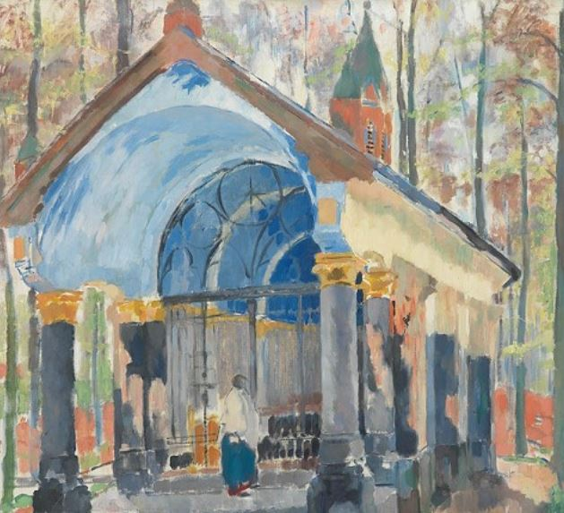 Painting Kapel van Onze Lieve Vrouw van Welriekende by Rik Wouters, 1913